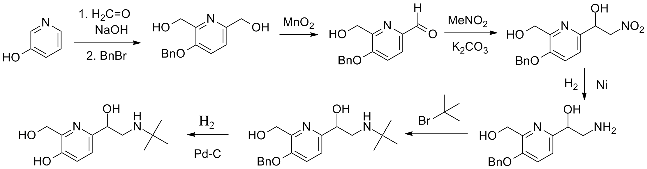 Maxair